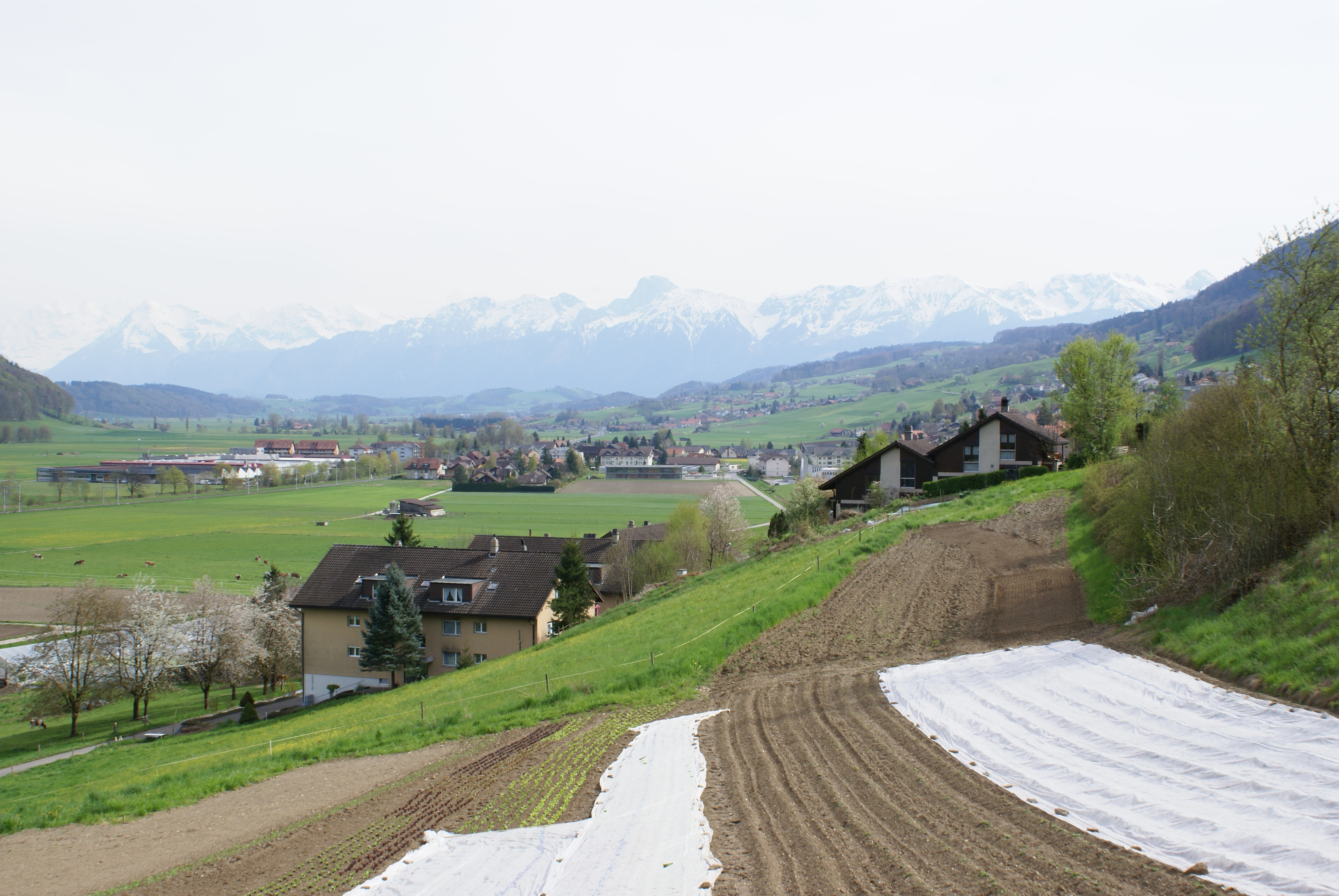 Municipality of Toffen, Canton of Berne, seen from the north.